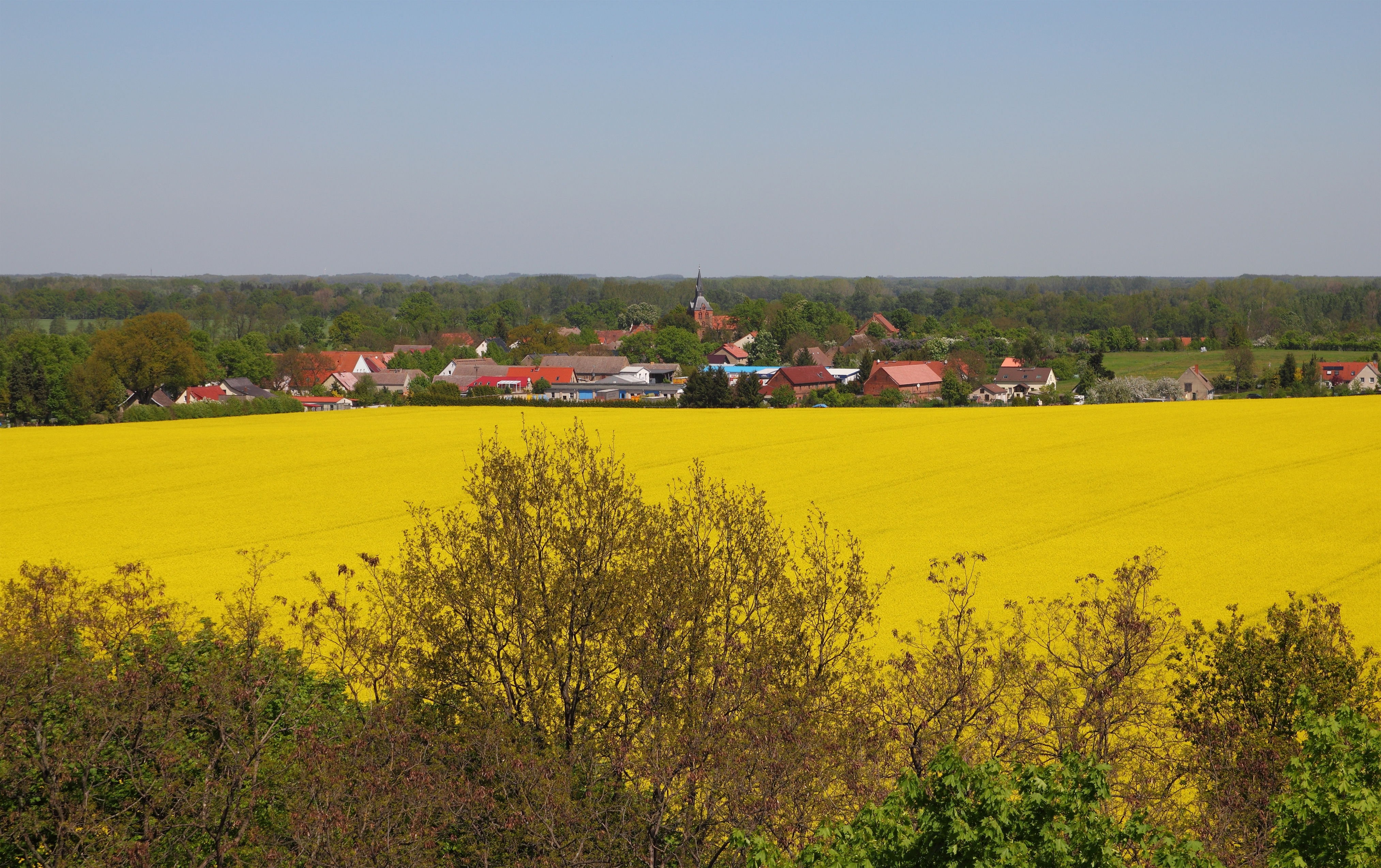 View from Fehrbellin Victory Column to Hakenberg, Brandenburg, Germany